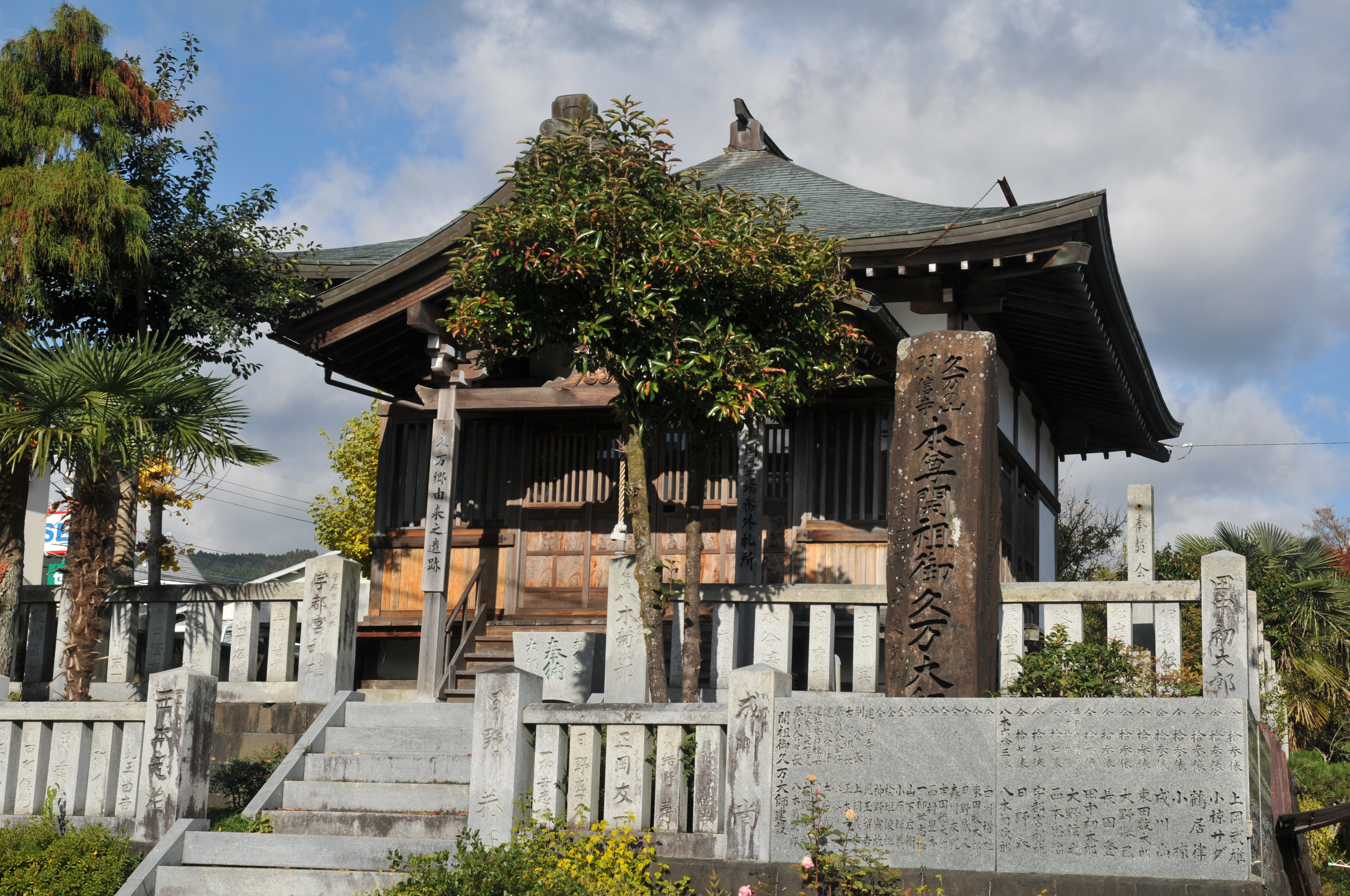 Okuma-Daishidō